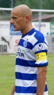 Footballer Srdjan Baljak